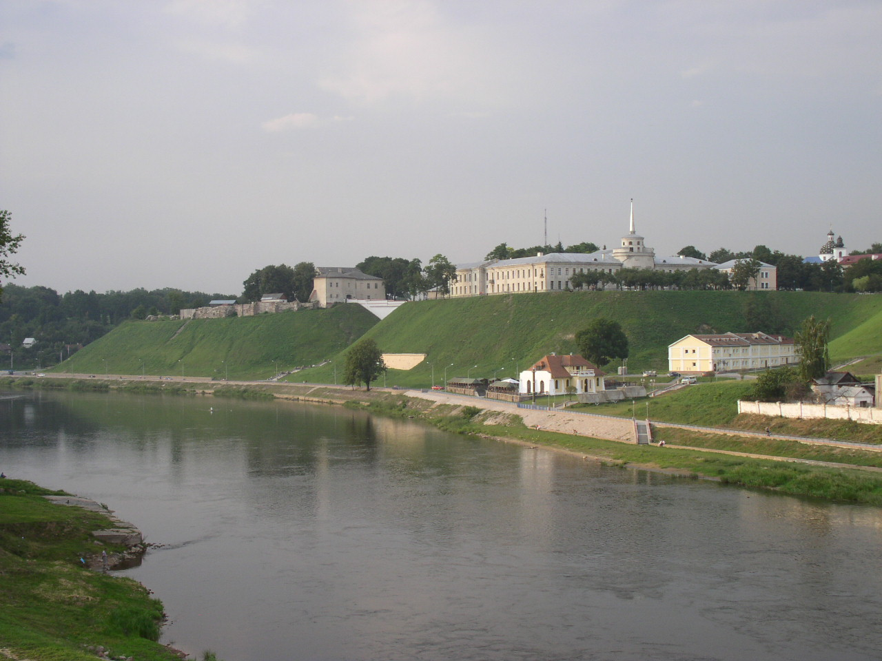 New and old castles. Hrodna, Belarus.